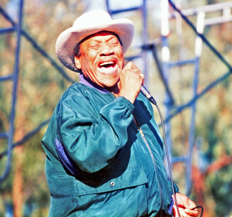 Bobby "Blue" Bland at the Long Beach Blues Festival